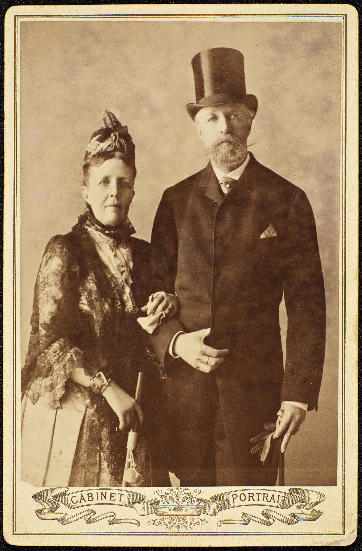 Tittel / Title: Portrett av Kong Oscar II (1829-1907) og Dronning Sofie (1836-1913) Motiv / Motif: Kabinettkort. Dato / Date: ukjent / unknown Fotograf / Photographer: ukjent / unknown Eier / Owner Institution: Nasjonalbiblioteket / National Library of Norway Lenke / Link: Bildesignatur / Image Number: blds_01588